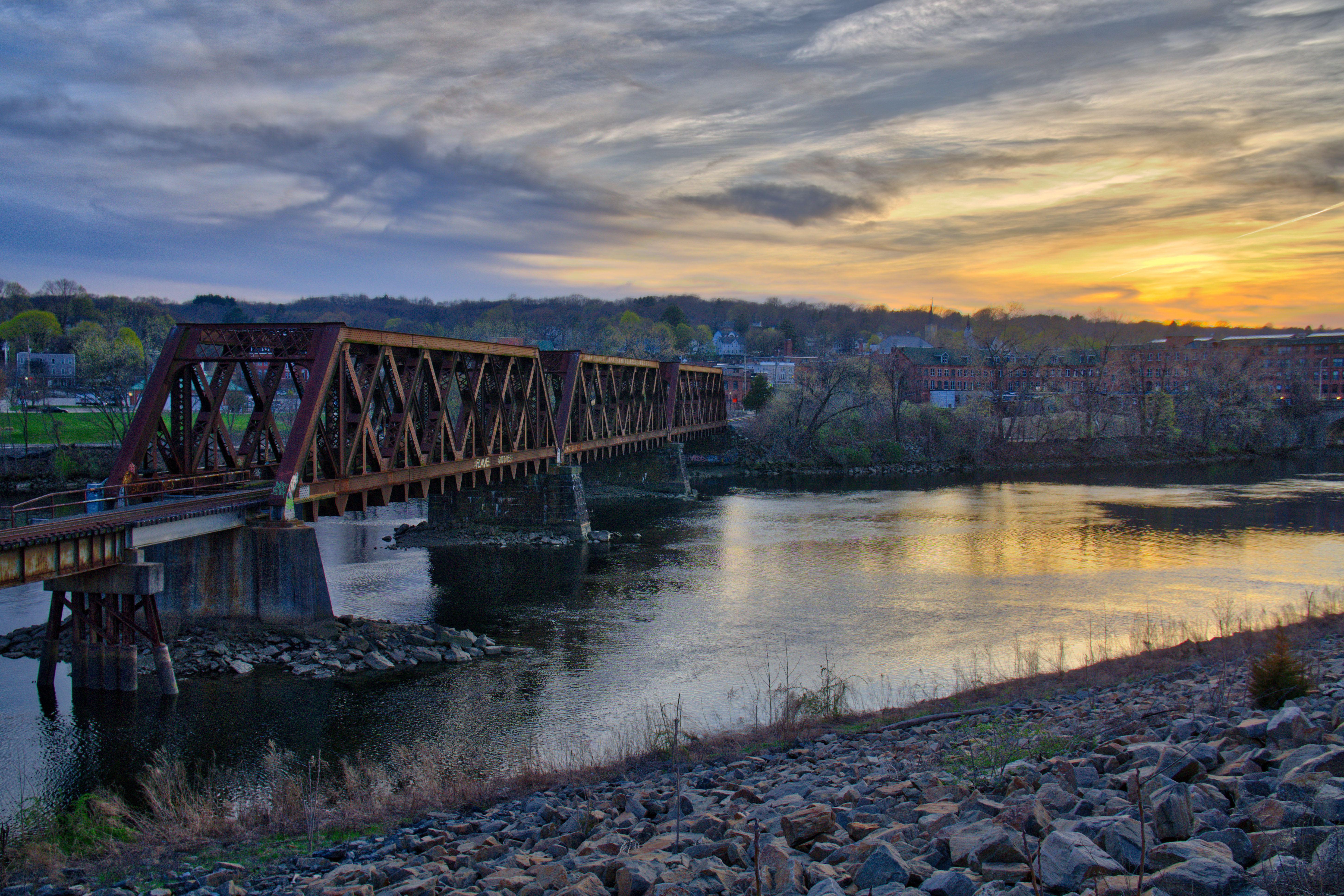 The sun sets over the Housatonic River and Shelton, Connecticut, viewed from Derby, in April 2016. The railroad bridge at left was originally part of the Housatonic Railroad's Derby Extension; it is now part of the modern Housatonic Railroad.